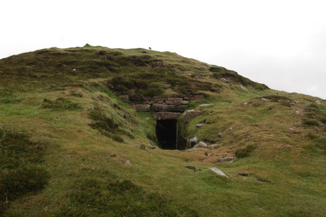 Vinquoy chambered tomb. Well preserved Maeshowe type tomb with four side chambers.